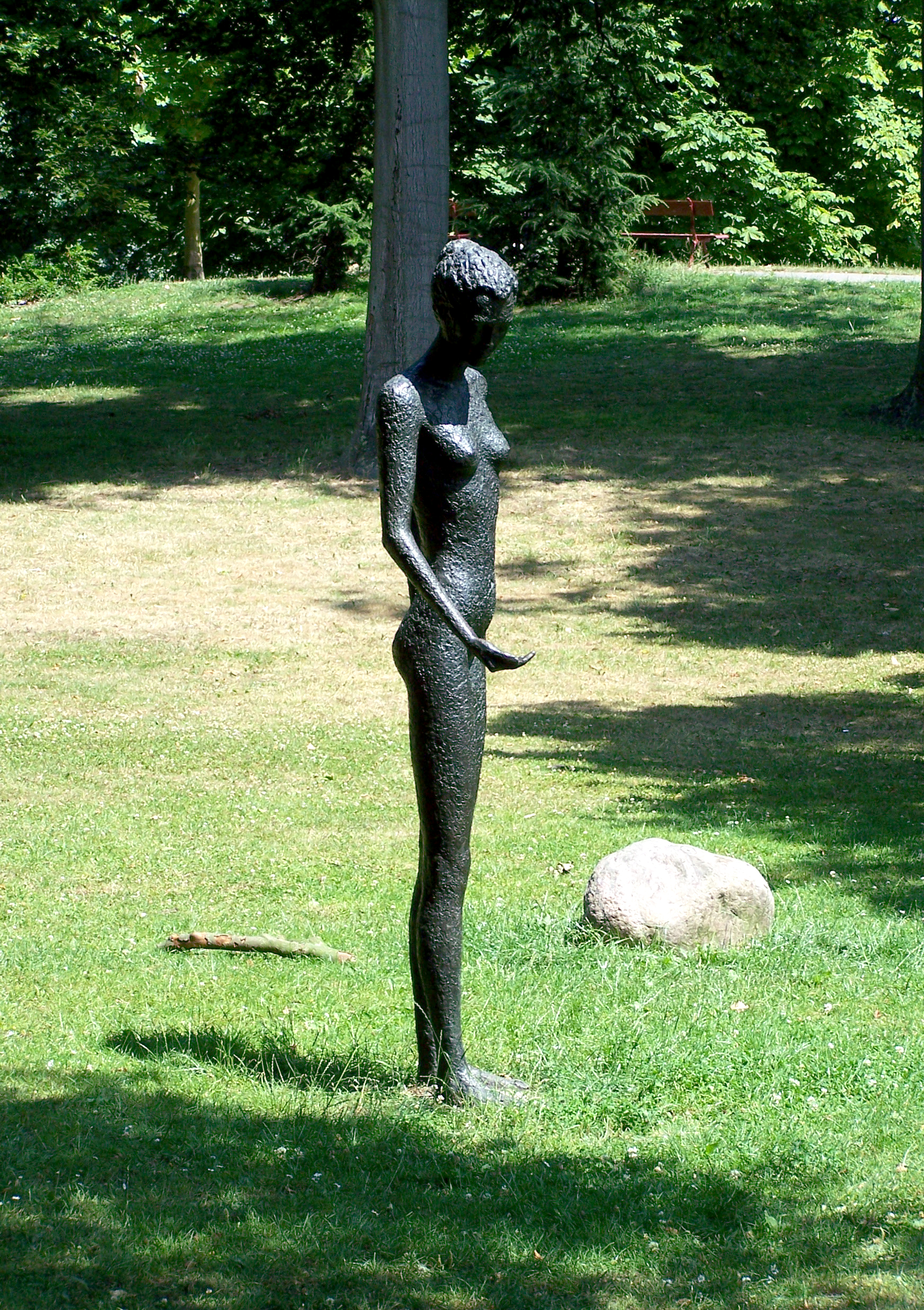 Sculpture "Wie wind zaait" (he who plants wind) by Else Ringnalda. Placed at the Rijsterborgherpark in Deventer in 1987. The rock is part of the sculpture.